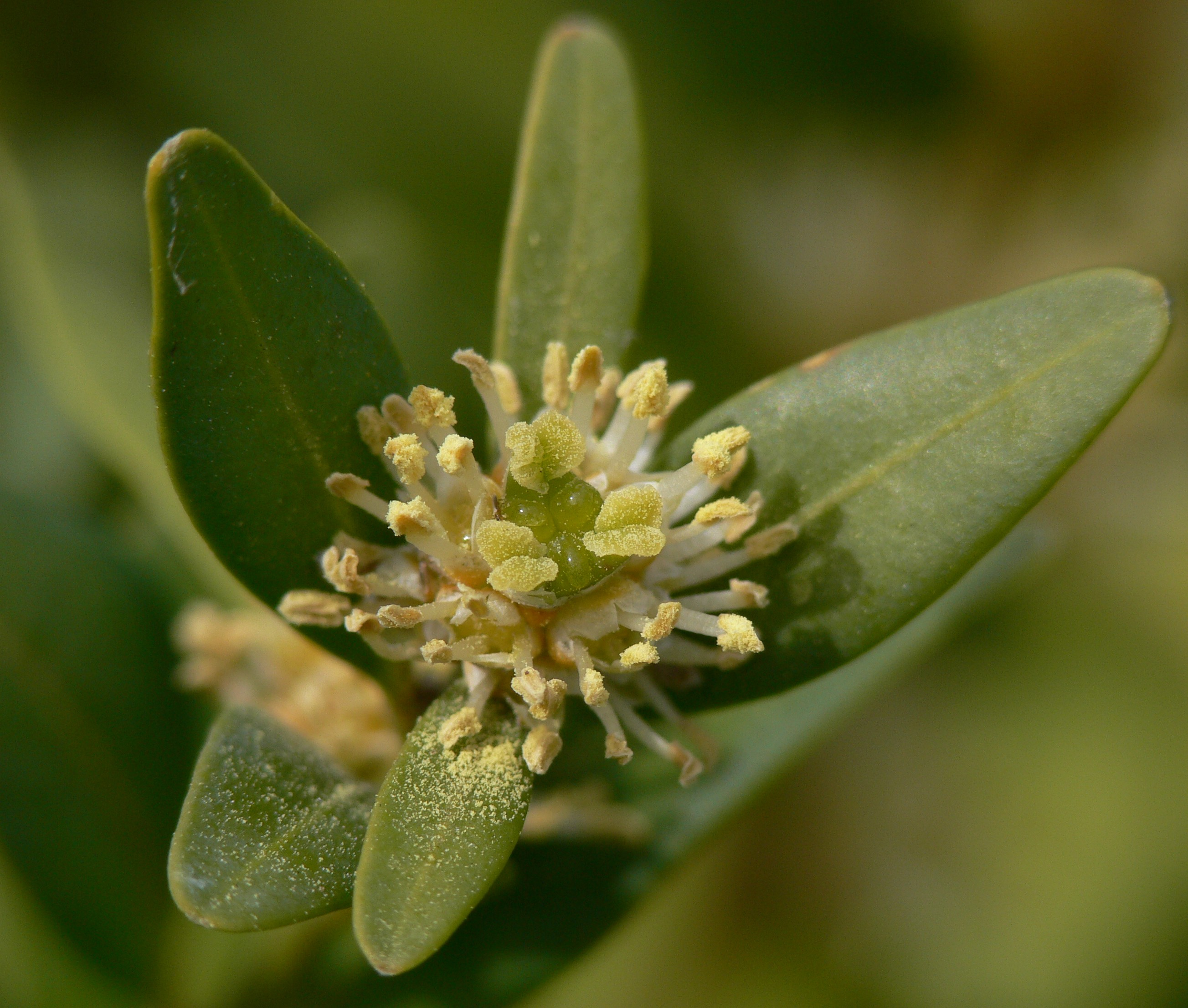 Flowers of Common Box, European Box, Boxwood